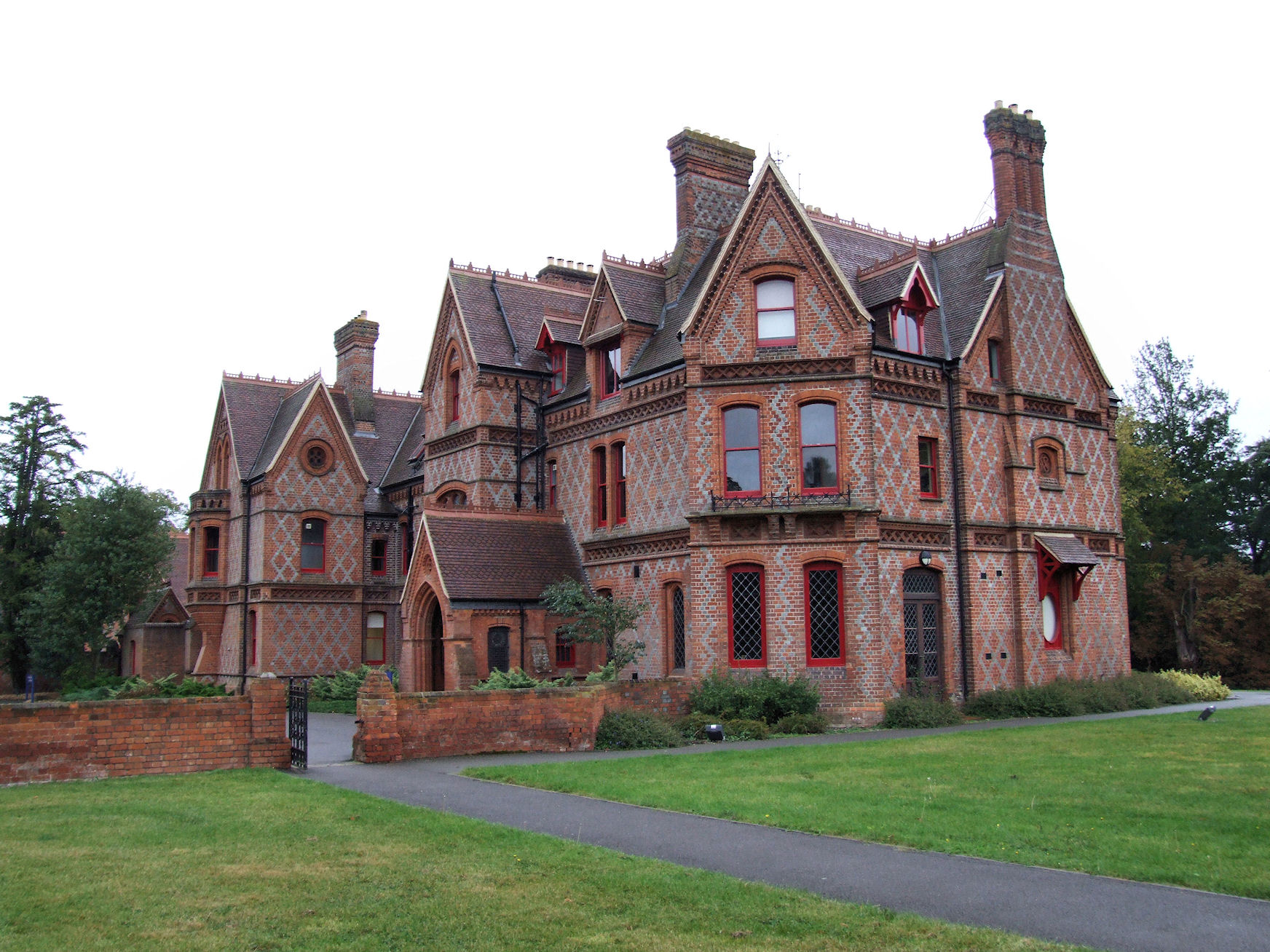 Foxhill House situated in Whiteknights Park, Earley near Reading was built in 1868 for his own use by Alfred Waterhouse (1830-1905). Waterhouse was the architect of many fine Victorian buildings including the Town Hall and Strangeways Prison in Manchester, the Natural History Museum and the National Liberal Club in London, Balliol College in Oxford, Caius College in Cambridge and the Metropole Hotel in Brighton.